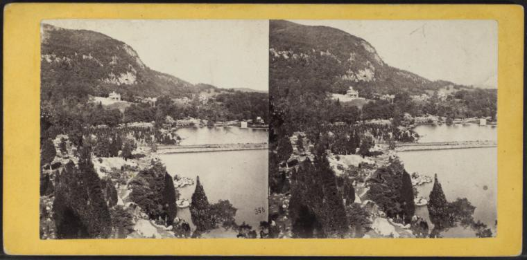 Digital ID: G91F051_028F. E. & H.T. Anthony (Firm) -- Photographer. [1860?-1875?] Source: Robert N. Dennis collection of stereoscopic views. / United States. / States / New York / Beauties of the Hudson. ( Repository: The New York Public Library. Photography Collection, Miriam and Ira D. Wallach Division of Art, Prints and Photographs. See more information about and others at Persistent URL: Rights Info: No known copyright restrictions; may be subject to third party rights (for more information